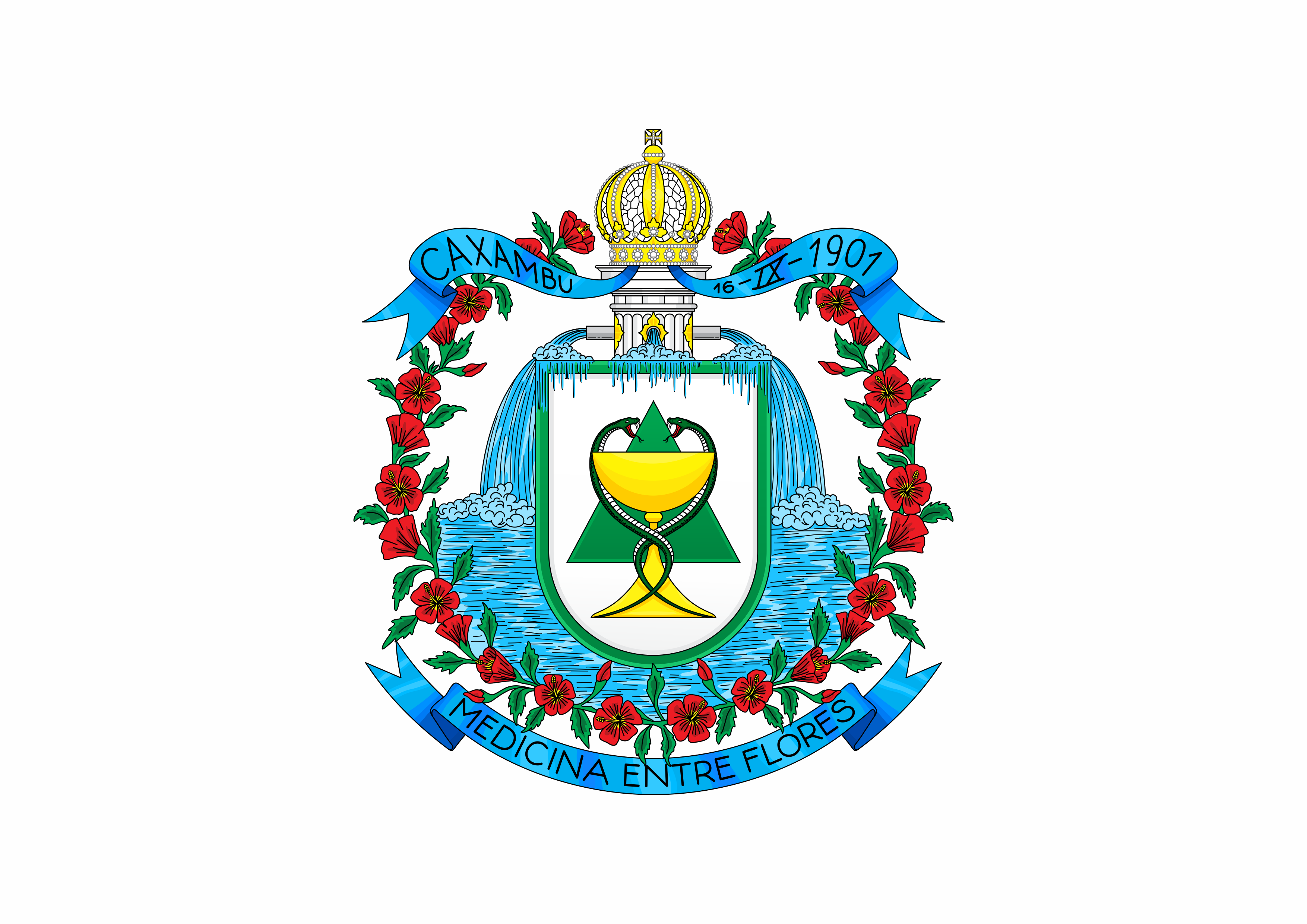 Flags of the city of Caxambu, Minas Gerais, Brazil.